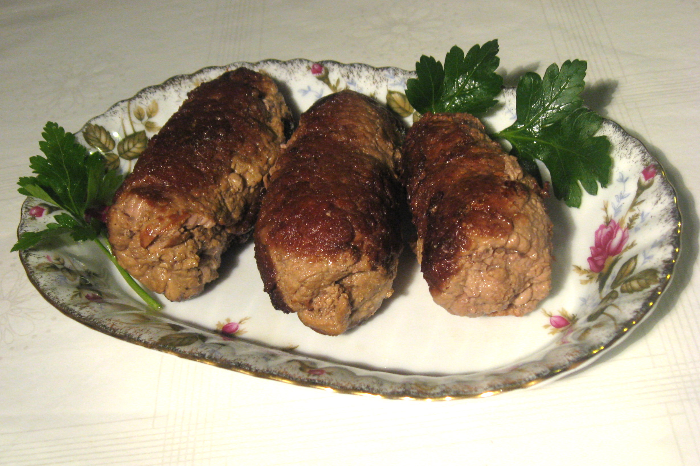 Zrazy - Polish meat dish